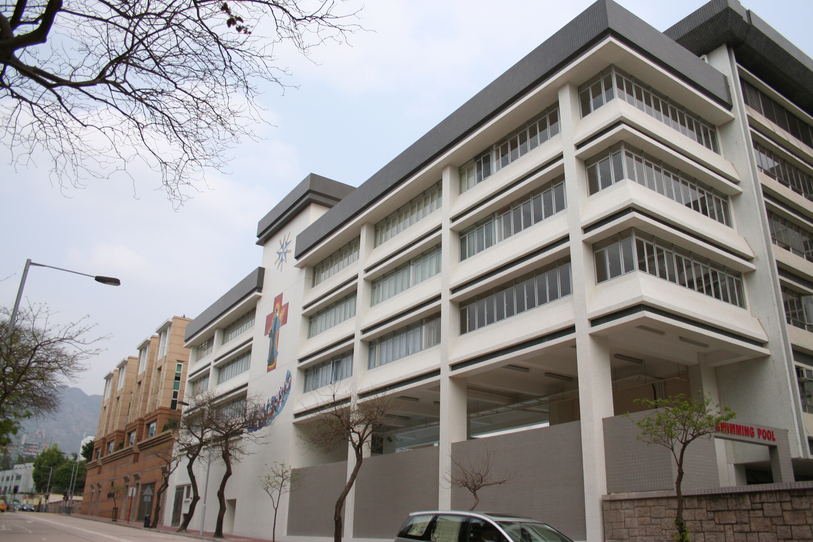 View of the Cassian Wing from La Salle Road. Taken by Linus Lee (Hk linus) in March 2006.